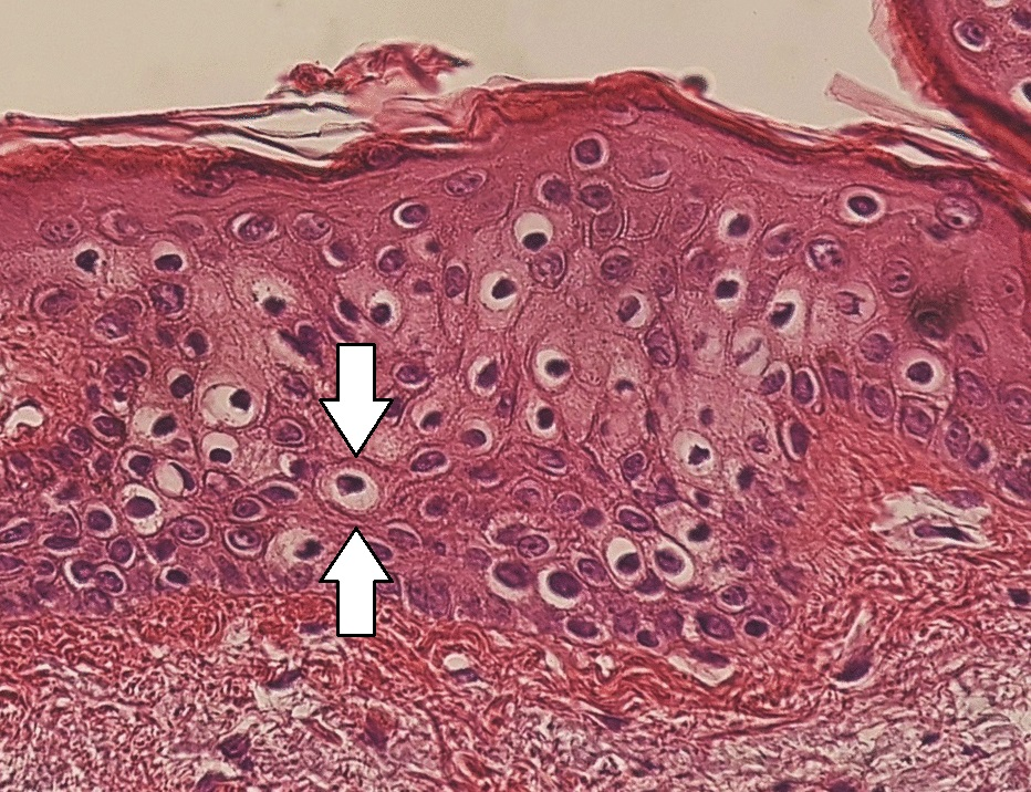 Micrograph of perinuclear vacuolization (one indicated by arrows), as an incidental finding in a skin slice taken at the edge of a skin excision with basal-cell carcinoma, with no signs of non-radical excision.